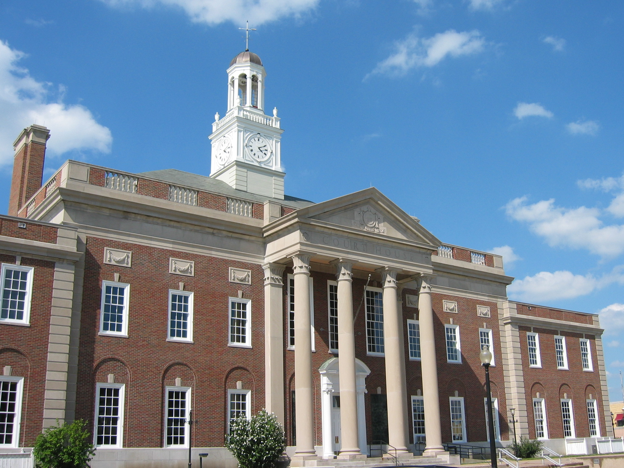 Independence Missouri, Courthouse